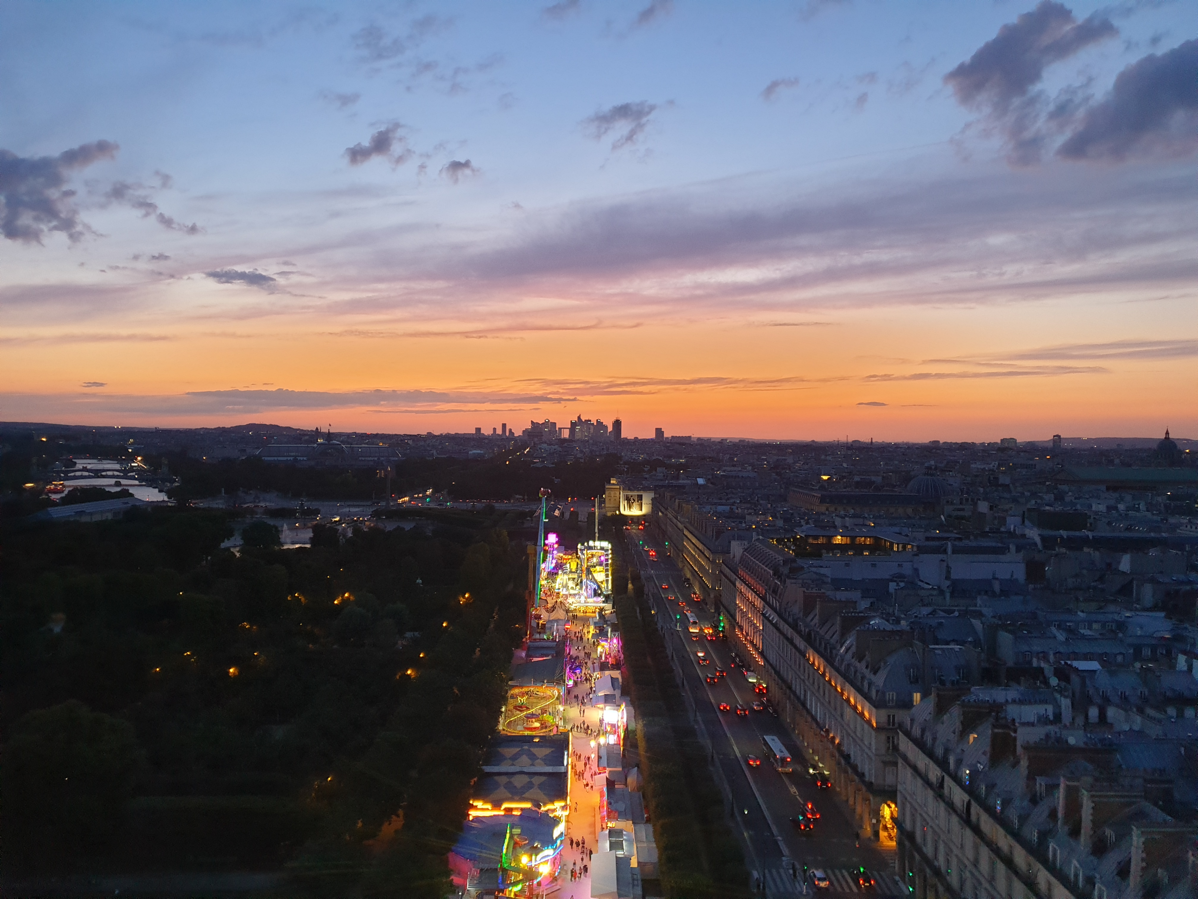 West view of Paris from the Tuileries Garden